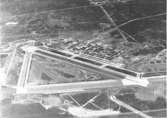 Mountain Home AAF, Idaho - June 1945 Source: USAF Mueller, Robert (1989). Active Air Force Bases Within the United States of America on 17 September 1982. USAF Reference Series, Maxwell AFB, Alabama: Office of Air Force History. ISBN 0-912799-53-6